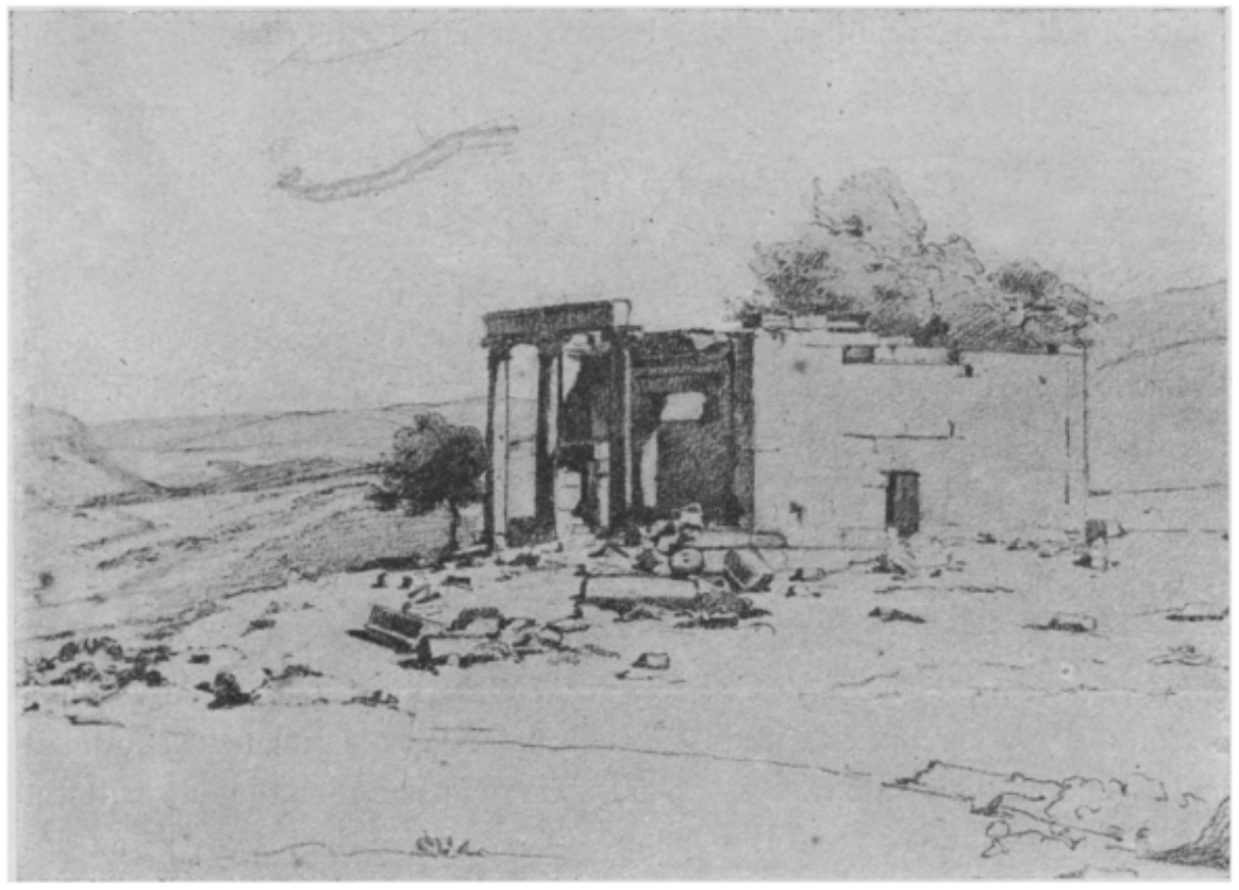 An 1838 sketch of the temple of Bziza by the French painter Antoine-Alphonse Montfort (1802-1884)